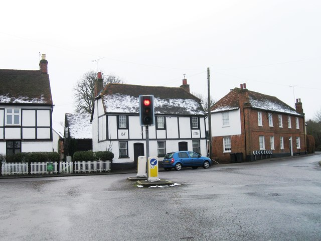 Road junction, Little Hadham. To the right is the former pub known as The Angel, once inhabited by the folk group Fairport Convention